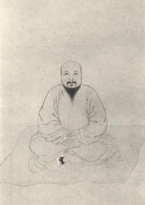 Zhu Gui, politician and scholar of the Qing Dynasty.